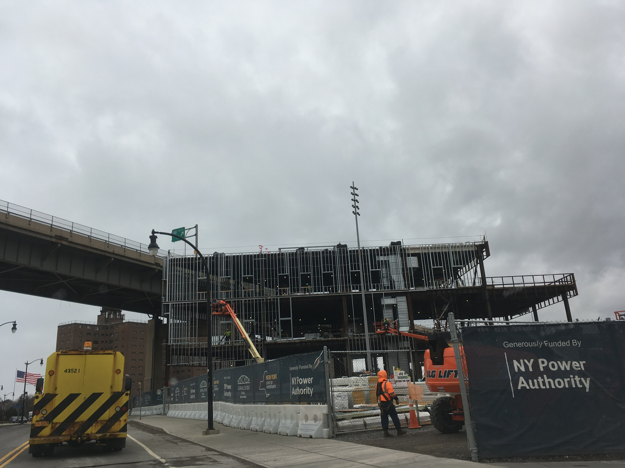 Construction of Explore & More Museum